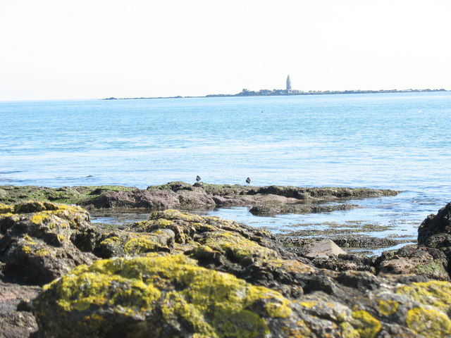 Rocky foreshore with Ynys Dulas in the background The tower was built as a shelter for shipwrecked mariners in 1824.